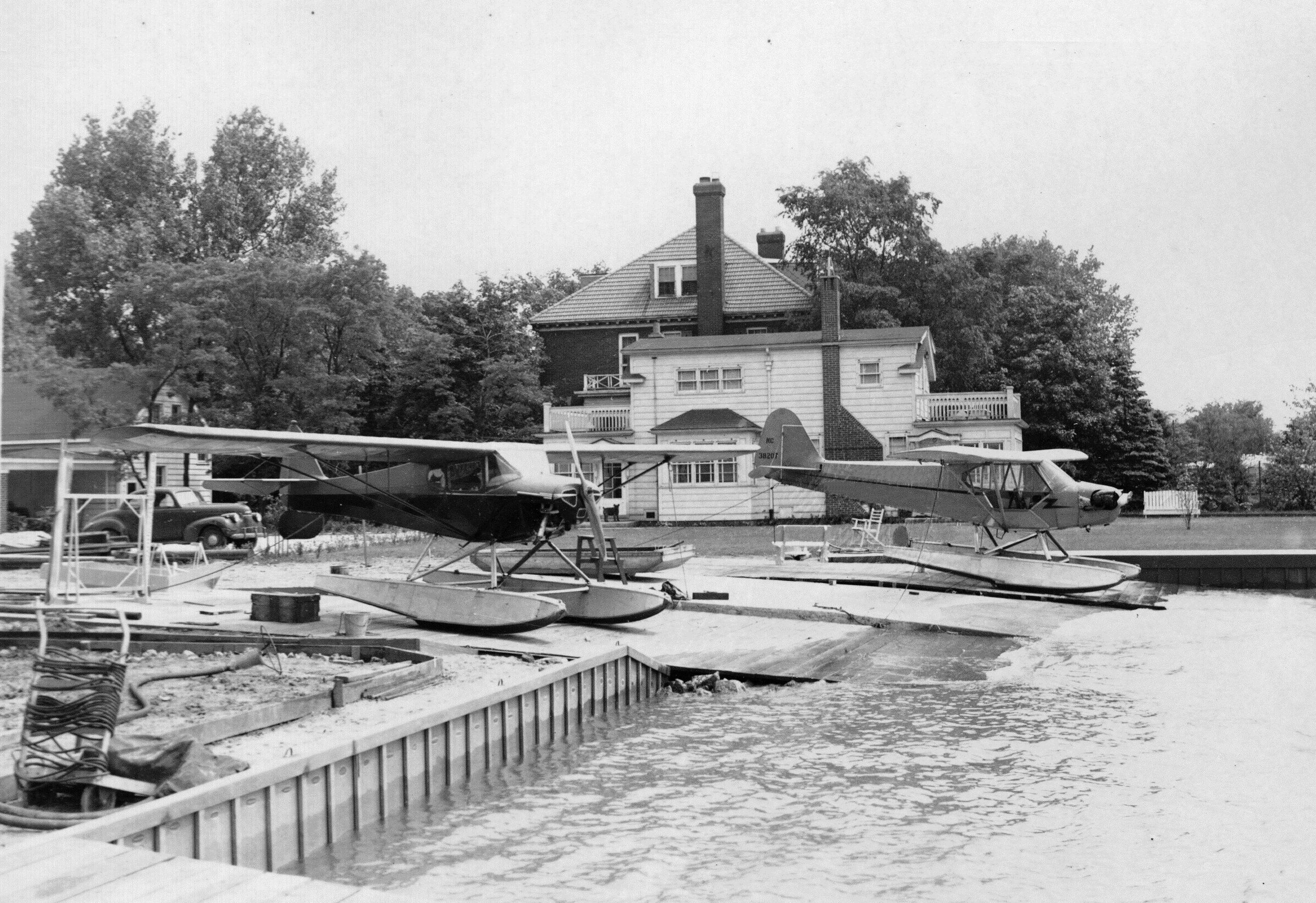 Garland's Seaplane Base with Harry G. Garland's J-3 Cub (NC38207) and J-4A Cub (NC30815) on the seaplane ramps facing the Detroit River. The home of Harry G. Garland and his wife Rose Garland is in the background.